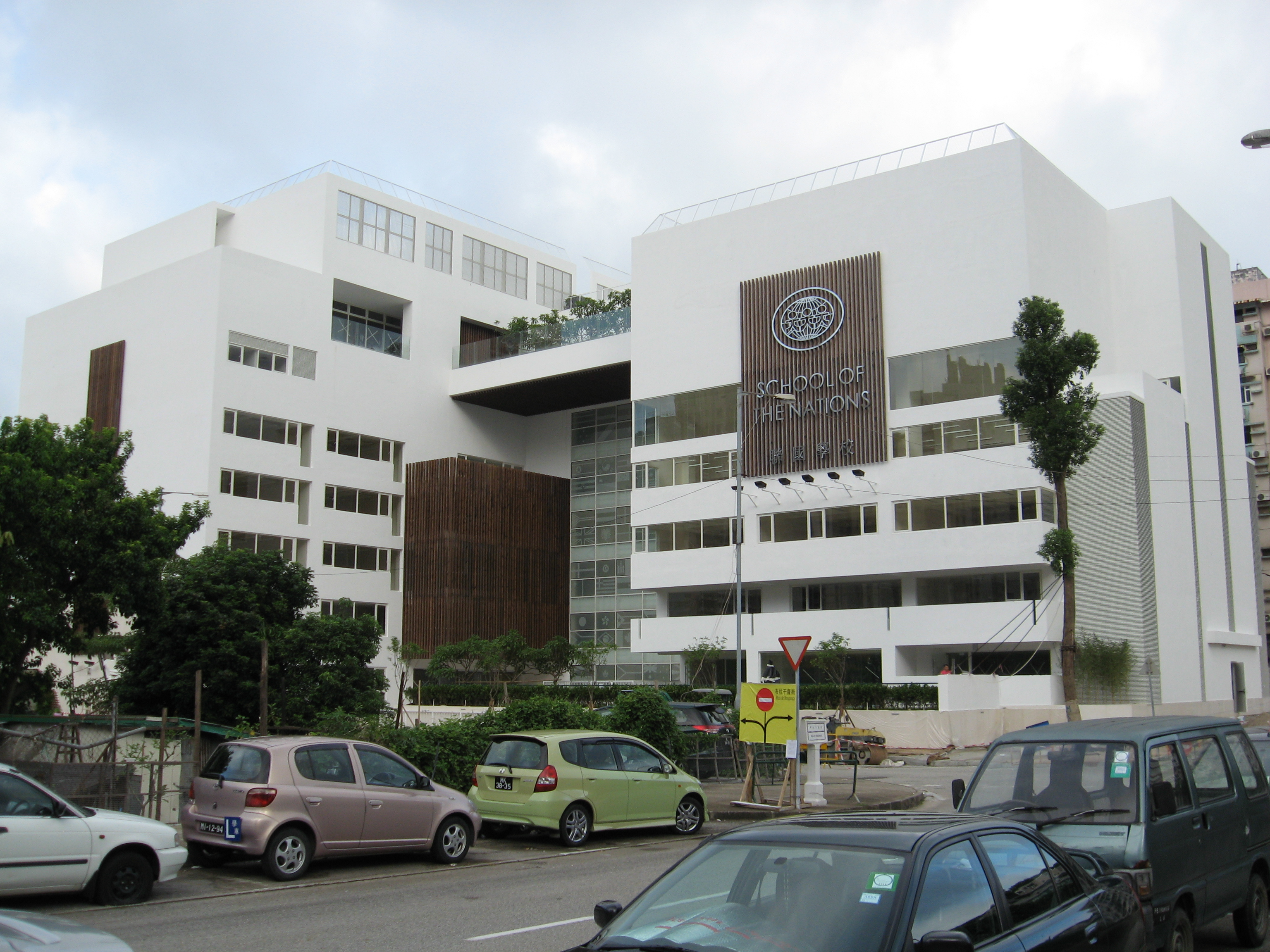 School of the Nations (Bahá'í – Macau) - This is a wide-shot photo that shows the School of the Nations building on Taipa Island in Macau (Macao), China. The building was completed in Summer 2008.